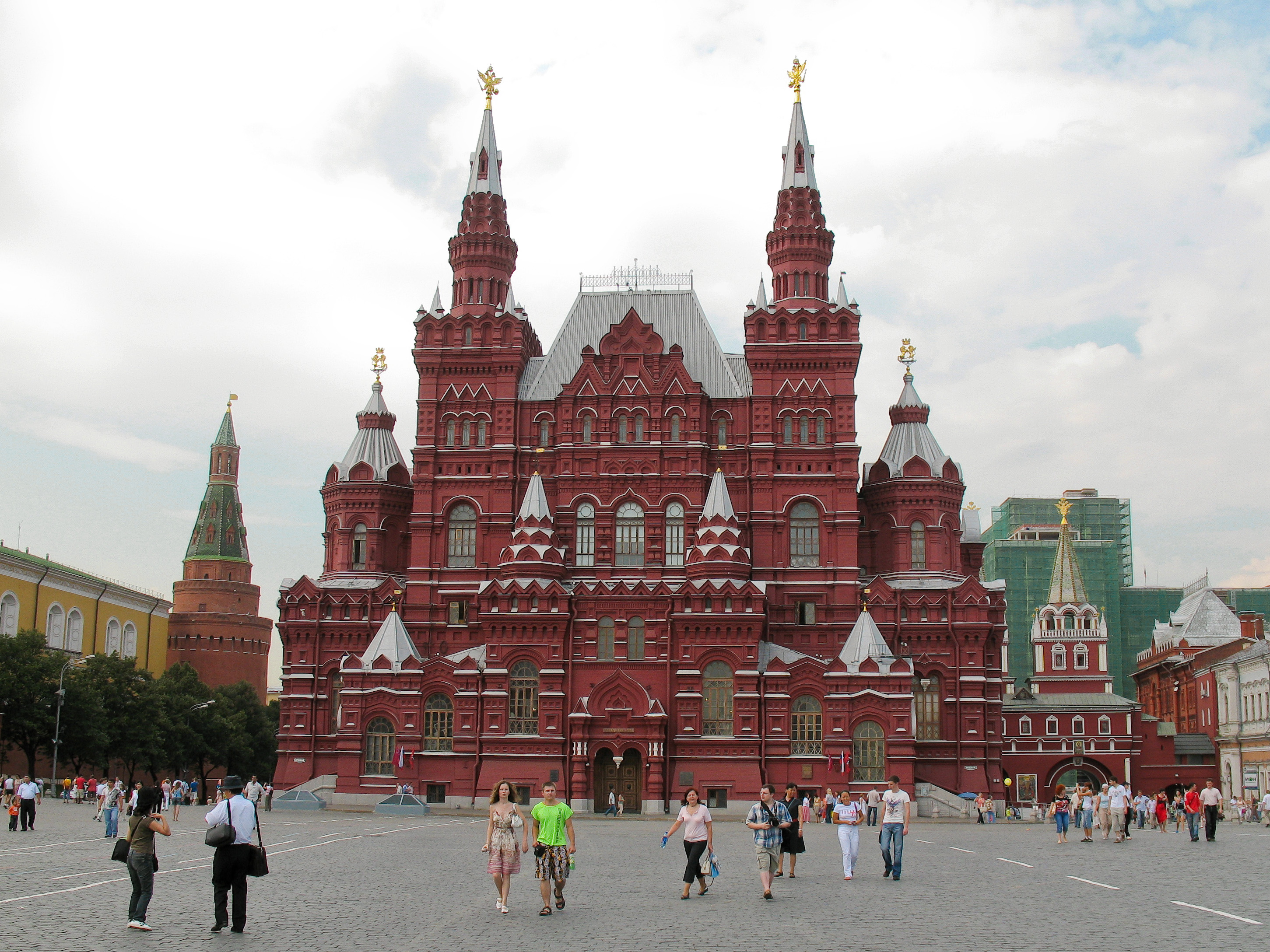 Moscow State Historical Museum, Moscow, Russia